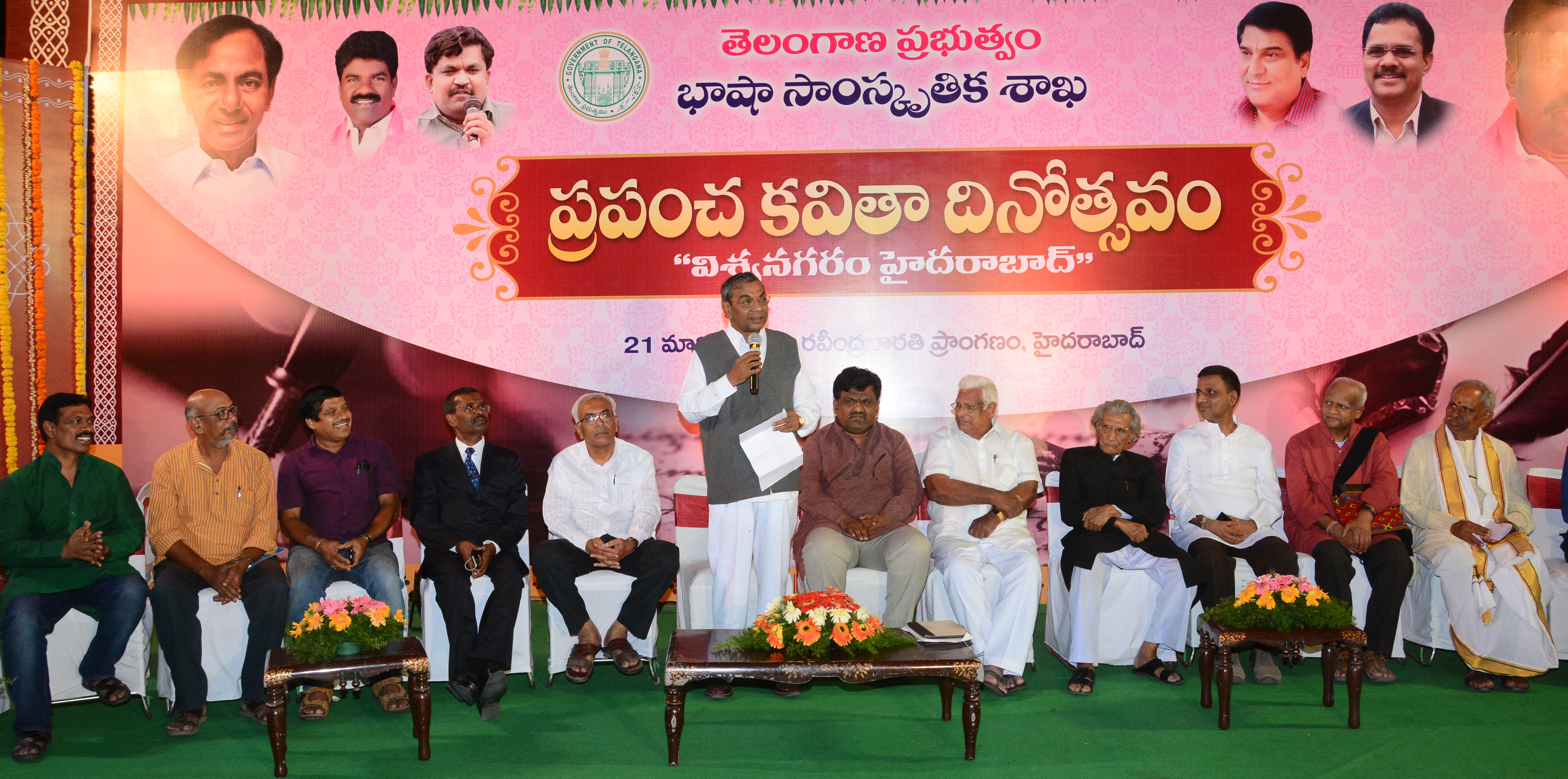 Poetry Reading on World Poetry Day Celebrations (2016) in Ravindra Bharathi